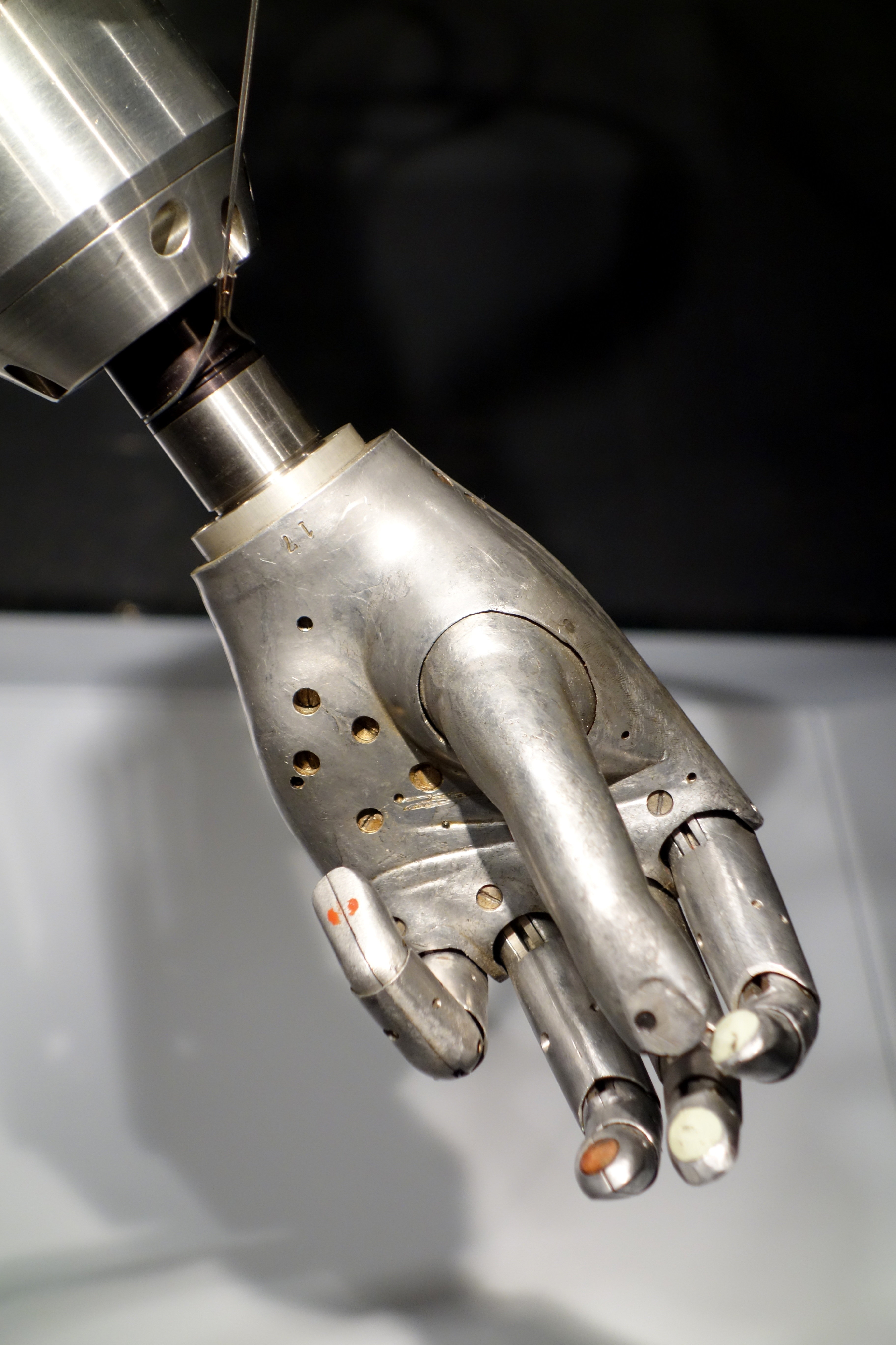 Research robot in the MIT Museum, MIT, Cambridge, Massachusetts, USA.